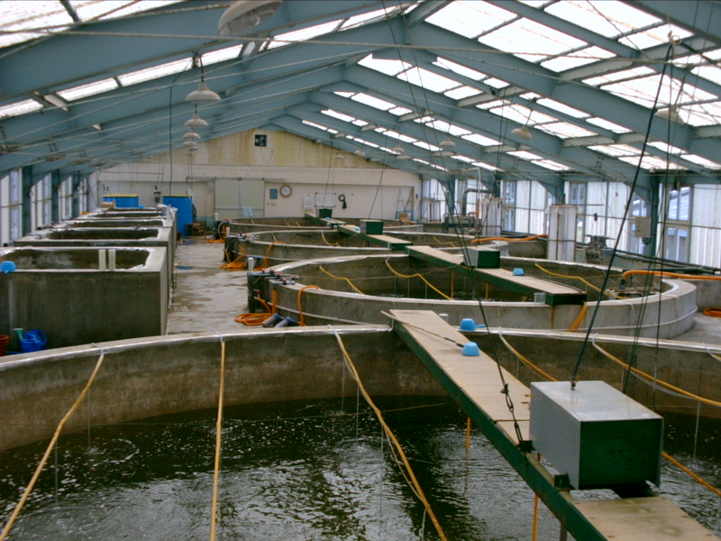 A hatchery on a shrimp farm in South Korea.